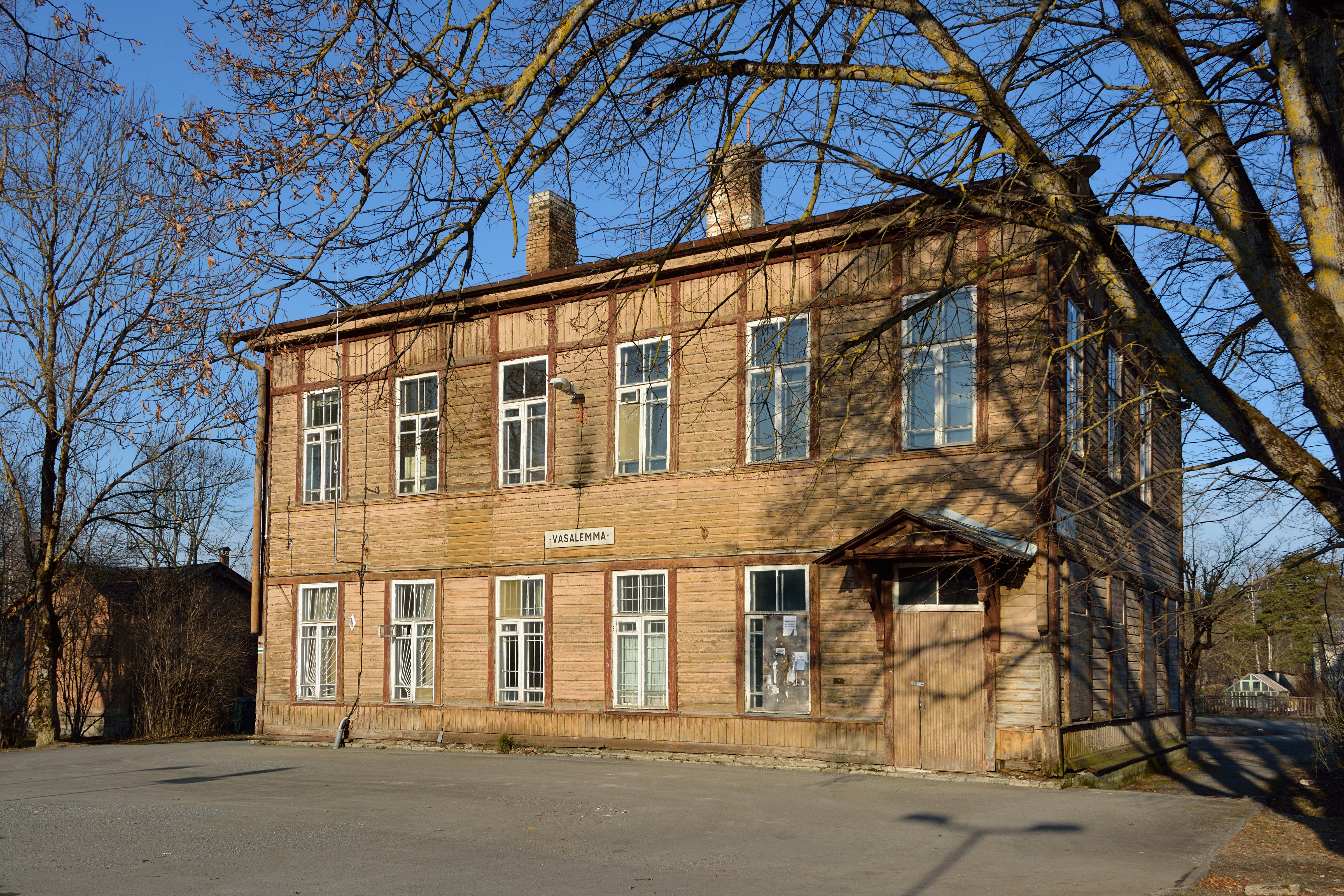 Vasalemma train station main bulding, built in 1918.